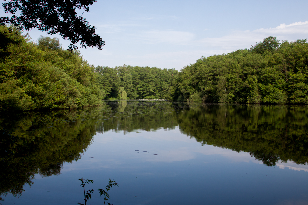 Photographed along the south bank of the Feldungel lake. Looking in northwestern direction.